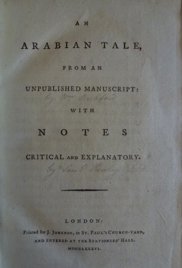 The title page of the 1786 edition of Thomas Beckford's novella Vathek.